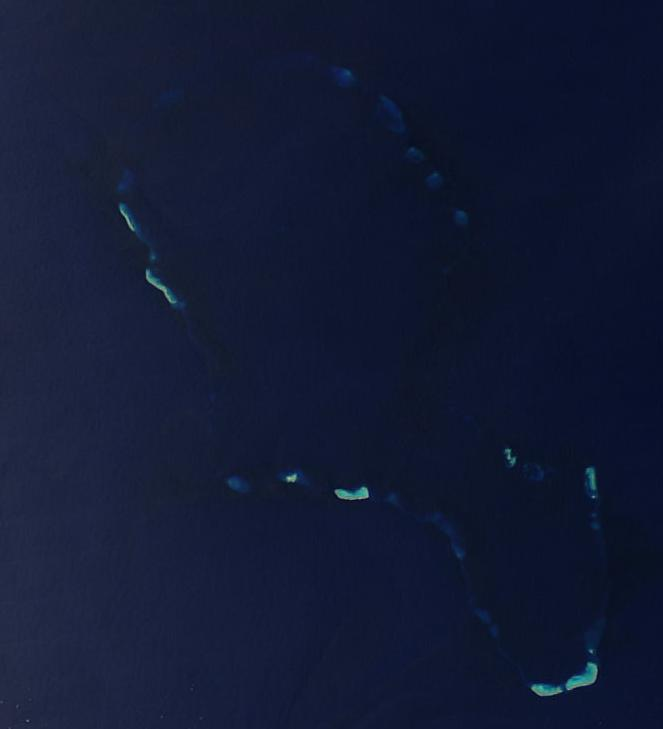 Bellona Reefs part of the Chesterfield Reef Group